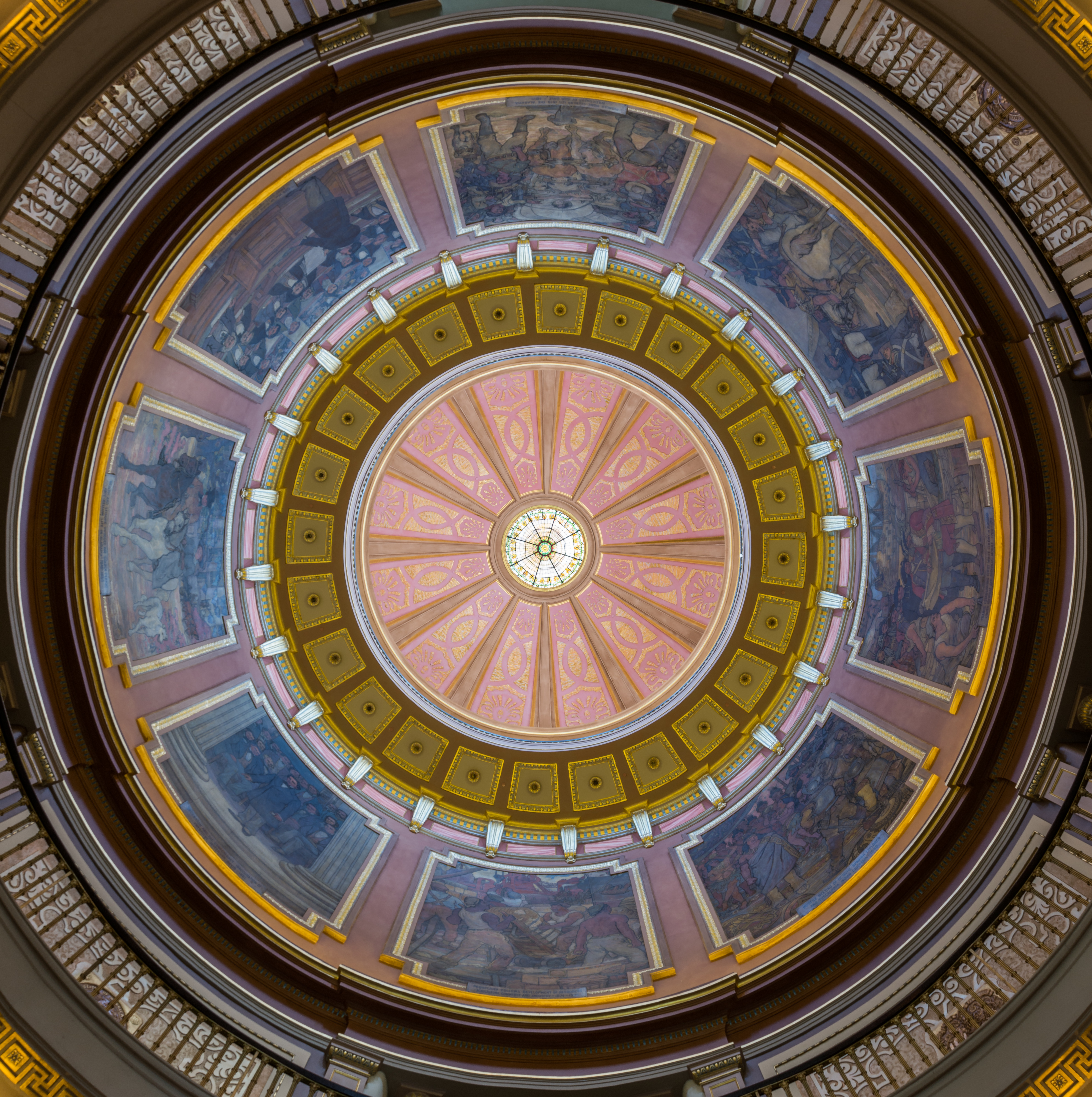 A view of the Rotunda of the Alabama State Capitol as seen from the floor of the building